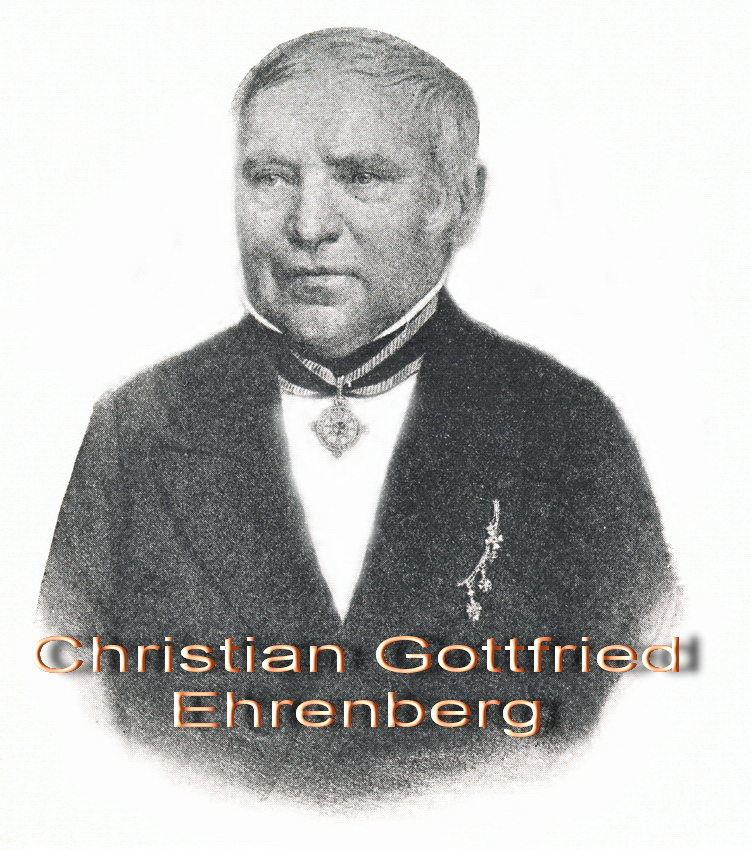 Christian Gottfried Ehrenberg